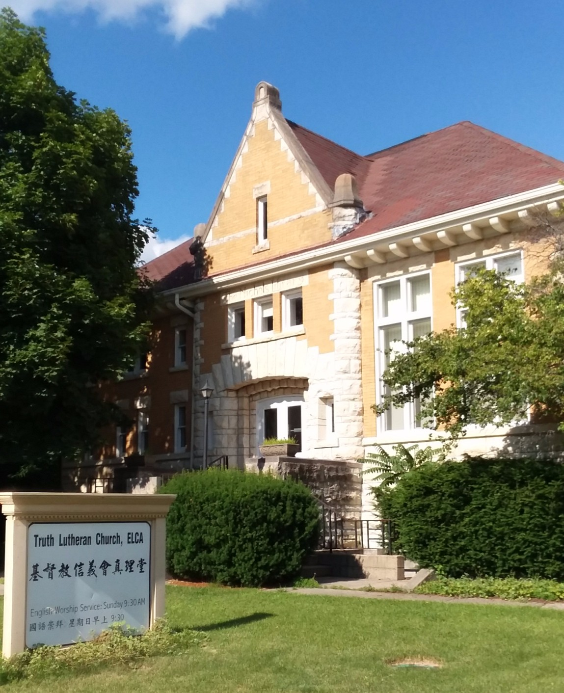 Photograph of the Old Nichols Library building in Naperville, Illinois. Old Nichols Library served as the original public library in Naperville. It was designated a local landmark in 2017.